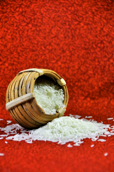 Basmati rice in kunki. Kunki is crude way of measuring and it is considered a symbol of prosperity in Bengali household